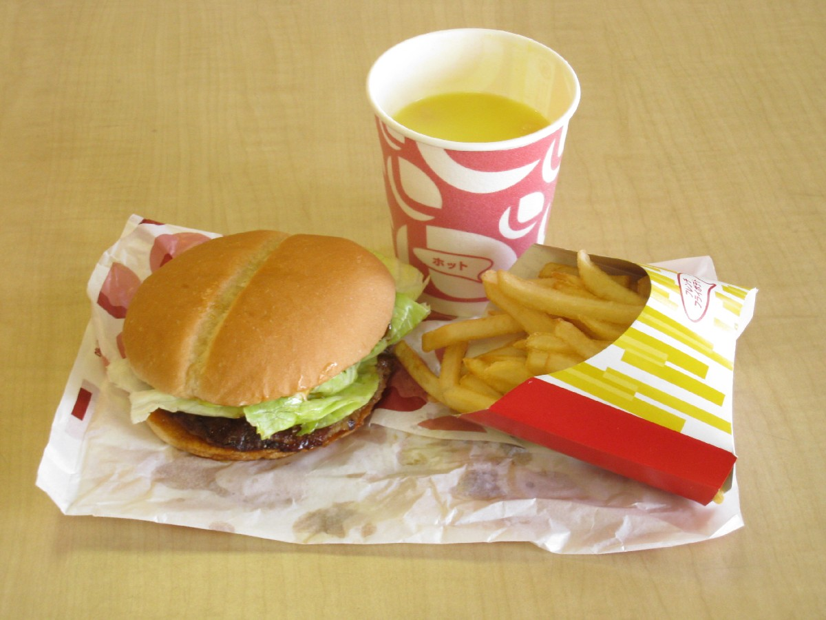 Lotteria "Teriyaki Burger" set